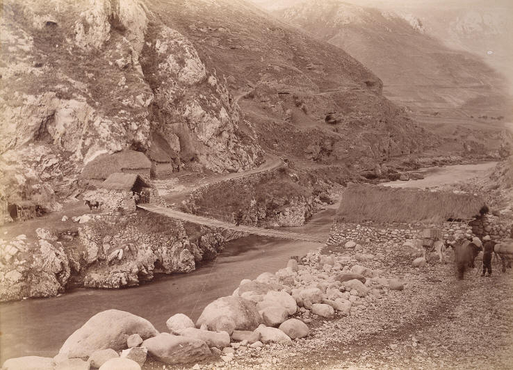 puente colgante de Oroya, Peru